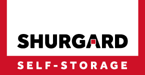 This is a logo owned by Shurgard Self-Storage